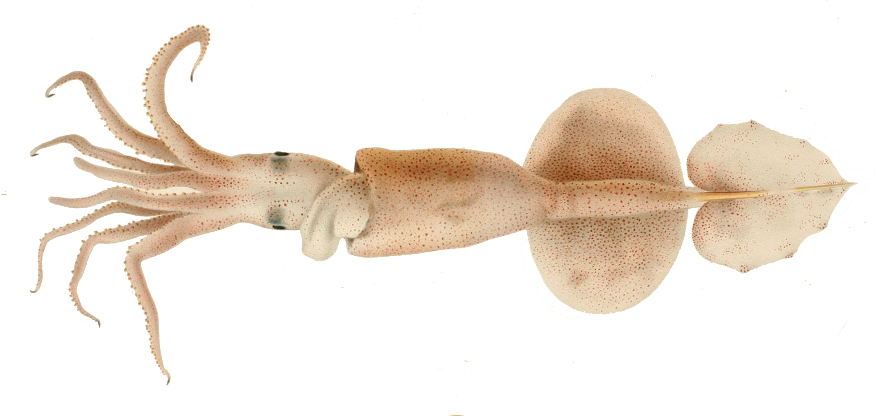 Grimalditeuthis bonplandi without its tentacles.